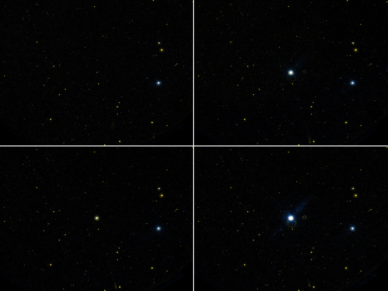 This movie taken by NASA'S Galaxy Evolution Explorer show one of the largest flares, or star eruptions, ever recorded at ultraviolet wavelengths. The star, called GJ 3685A, just happened to be in the Galaxy Evolution Explorer's field of view while the telescope was busy observing galaxies. As the movie demonstrates, the seemingly serene star suddenly exploded once, then even more intensely a second time, pouring out in total about one million times more energy than a typical flare from our Sun. The second blast of light constituted an increase in brightness by a factor of at least 10,000. Flares are huge explosions of energy stemming from a single location on a star's surface. They are caused by the brief destruction of a star's magnetic fields. Many types of stars experience them, though old, small, rapidly rotating "red dwarfs" like GJ 3685A tend to flare more frequently and dramatically. These stars, called flare stars, can experience powerful eruptions as often as every few hours. Younger stars, in general, also erupt more often. One of the reasons astronomers study flare stars is to gain a better picture and history of flare events taking place on the Sun. A preliminary analysis of the GJ 3685A flare shows that the mechanisms underlying stellar eruptions may be more complex than previously believed. Evidence for the two most popular flare theories was found. Though this movie has been sped up (the actual flare lasted about 20 minutes), time-resolved data exist for each one-hundreth of a second. These observations were taken at 2 p.m. Pacific time, April 24, 2004. In the still image, the time sequence of the panels is upper left, upper right, lower left and lower right. The circular and linear features that appear below and to the right of GJ 3685A during the flare event are detector artifacts caused by the extreme brightness of the flare.